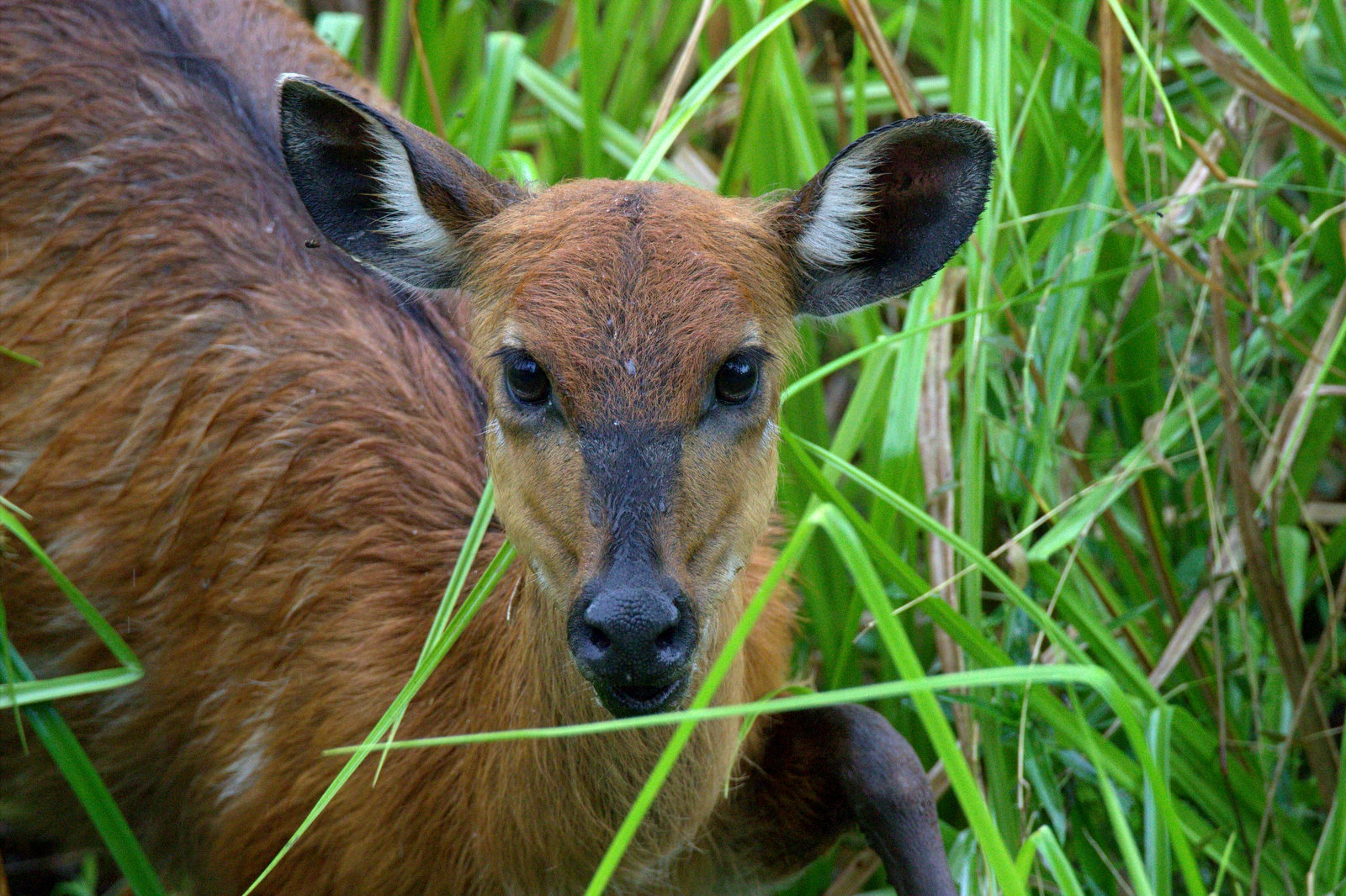 Female sitatunga at Langoué Baï, Ivindo National Park, Gabon